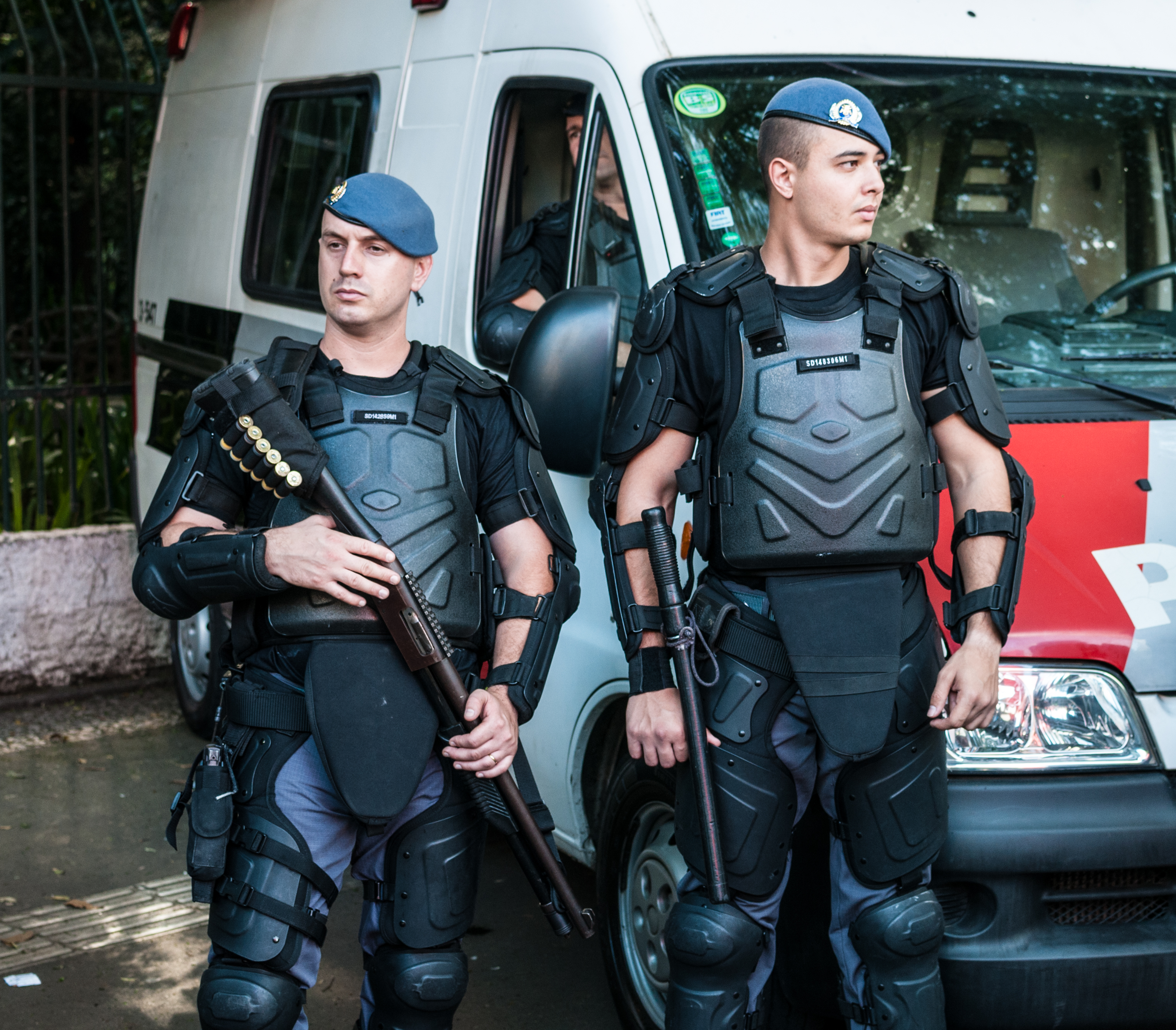 Polícia Militar do Estado de São Paulo